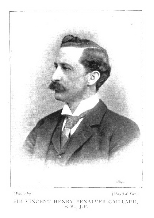 Book No. 58 Wiltshire Leaders: social and political, by William Gaskill. 1906 Chapter No. 1 - Portraits and biographies Page No. 51 - Portrait of Sir Vincent Henry Penalver Caillard of Wingfield House.